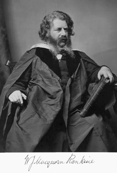 William John Macquorn Rankine